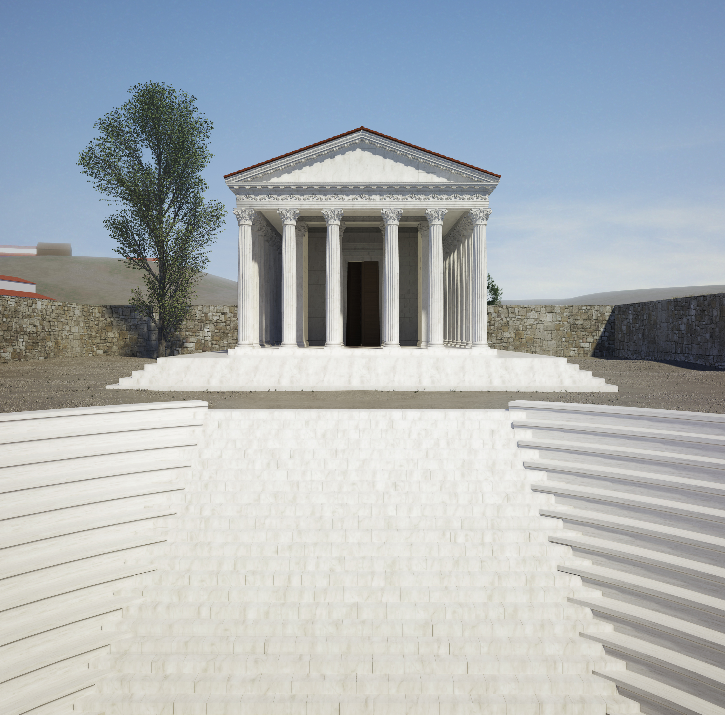 3D reconstruction temple Pessinus Angelo Verlinde